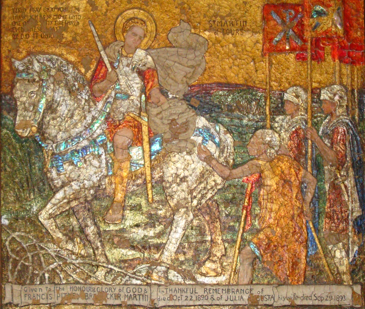 Restored Gesso Panel representing St. Martin Of Tours (15th century origin according to church text)